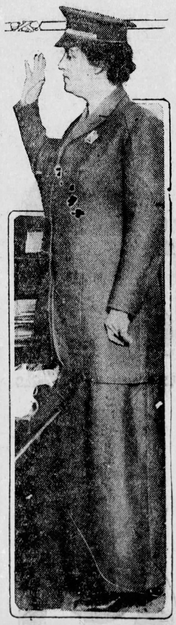 Blance Payson being sworn in as special officer